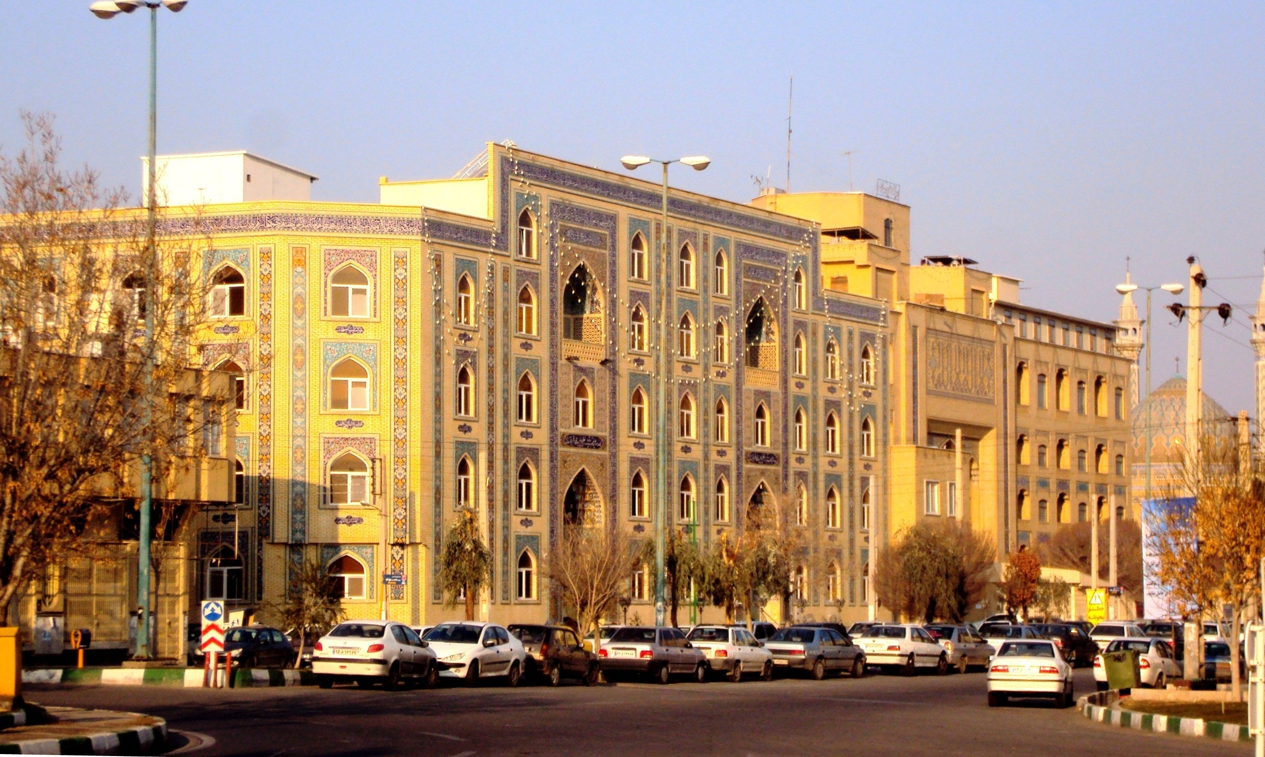 Jomhuri Street, Qom